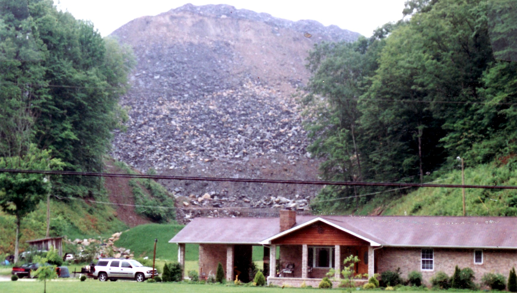 Valley fill - Mountaintop removal coal mining in Martin County, Kentucky